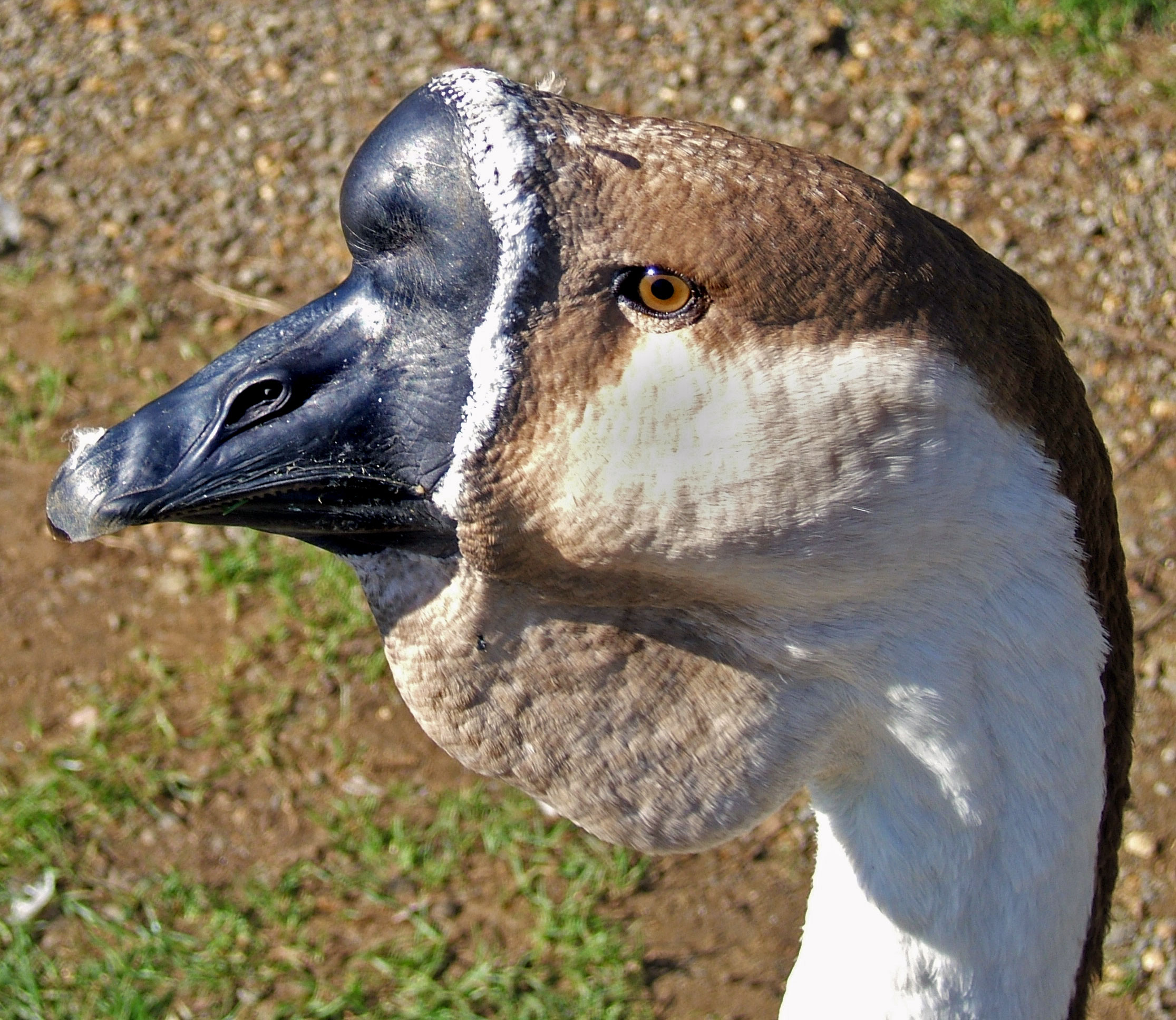 I think this is an African Goose.